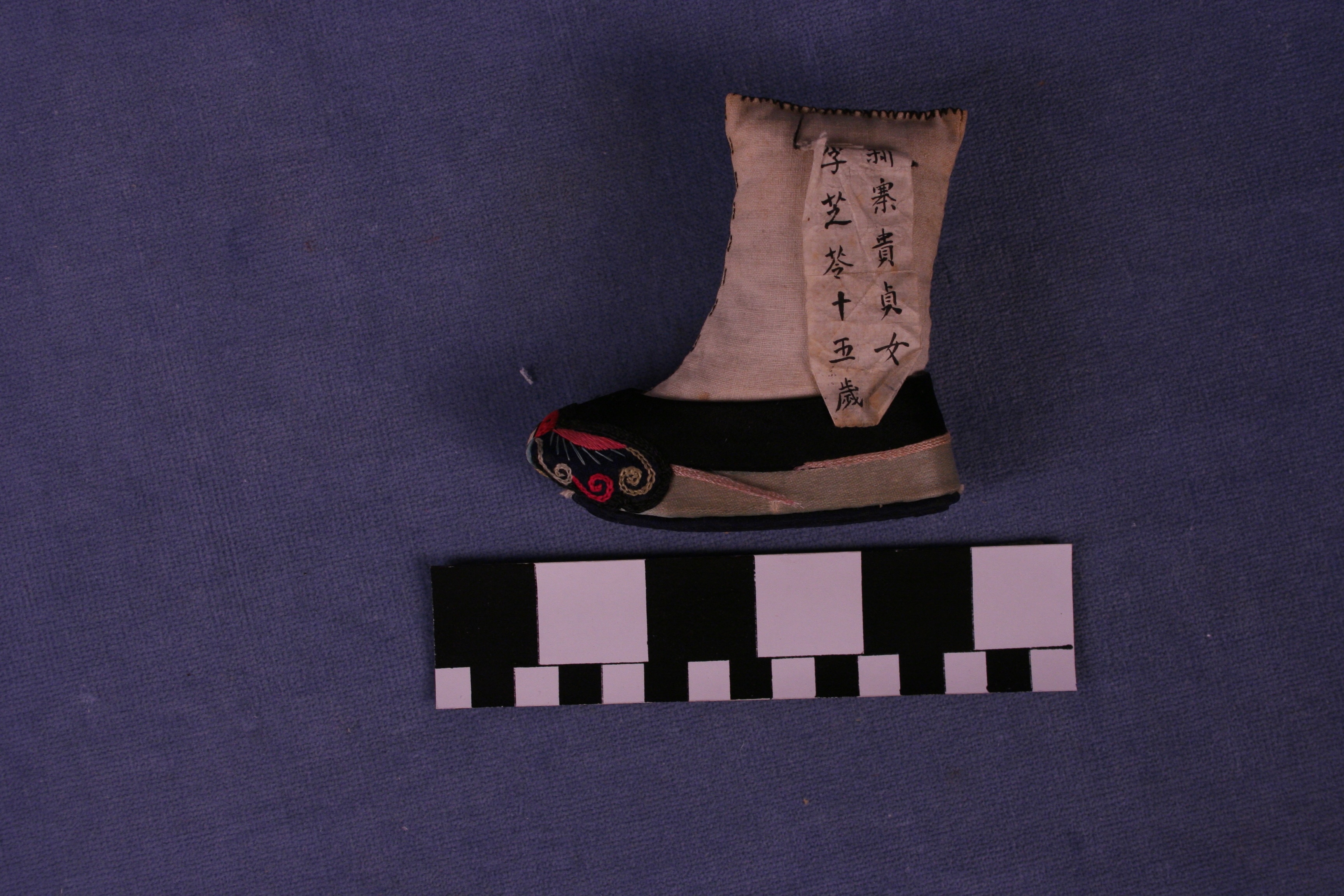 Stuffed silk and cotton Chinese shoe mold for bound feetTitle: Stuffed Cloth Chinese Shoe Mold for Bound Feet